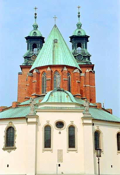 Gniezno Cathedrale in Poland